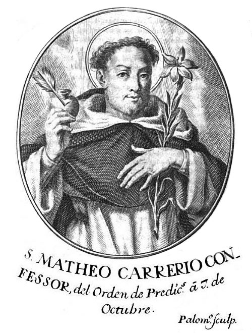 An engraving of Blessed Matthew Carrieri by Juan Bernabé Palomino y Fernández de la Vega, a Spanish engraver (1692–1777).